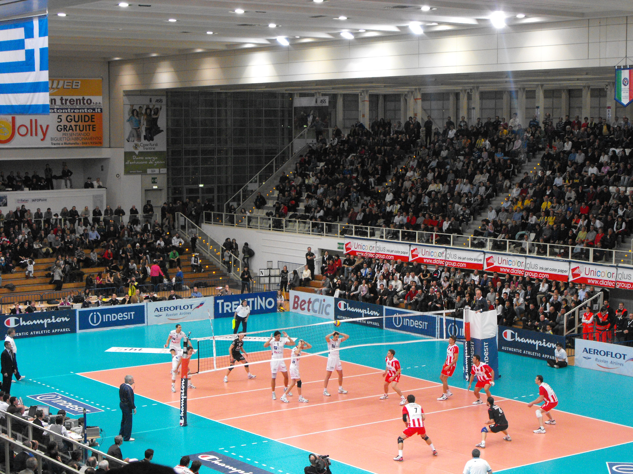 Trento-Olympiacos Pireo, match of the first phase of CEV Champions League 2009-2010